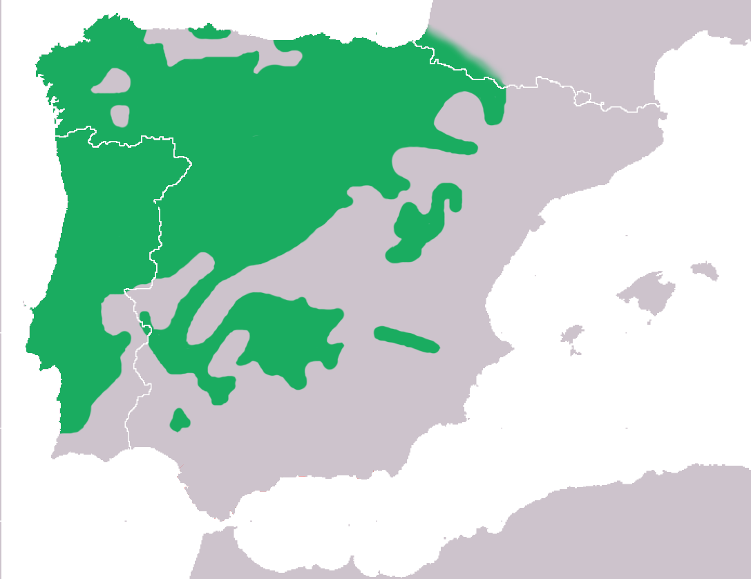 Hyla molleri range map in Iberian Peninsula.